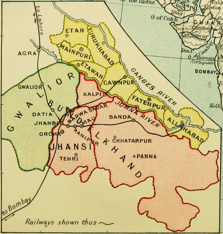 Map showing the Bundelkhand region including the major towns and the doab of Ganga and Jamuna.